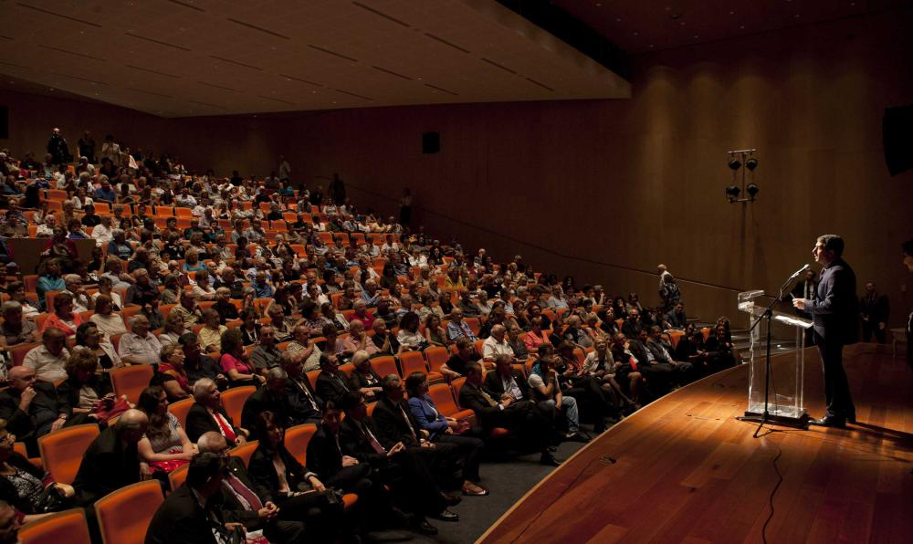 Bulgarian community in Israel: Bulgaria has moral capital that no other country has.